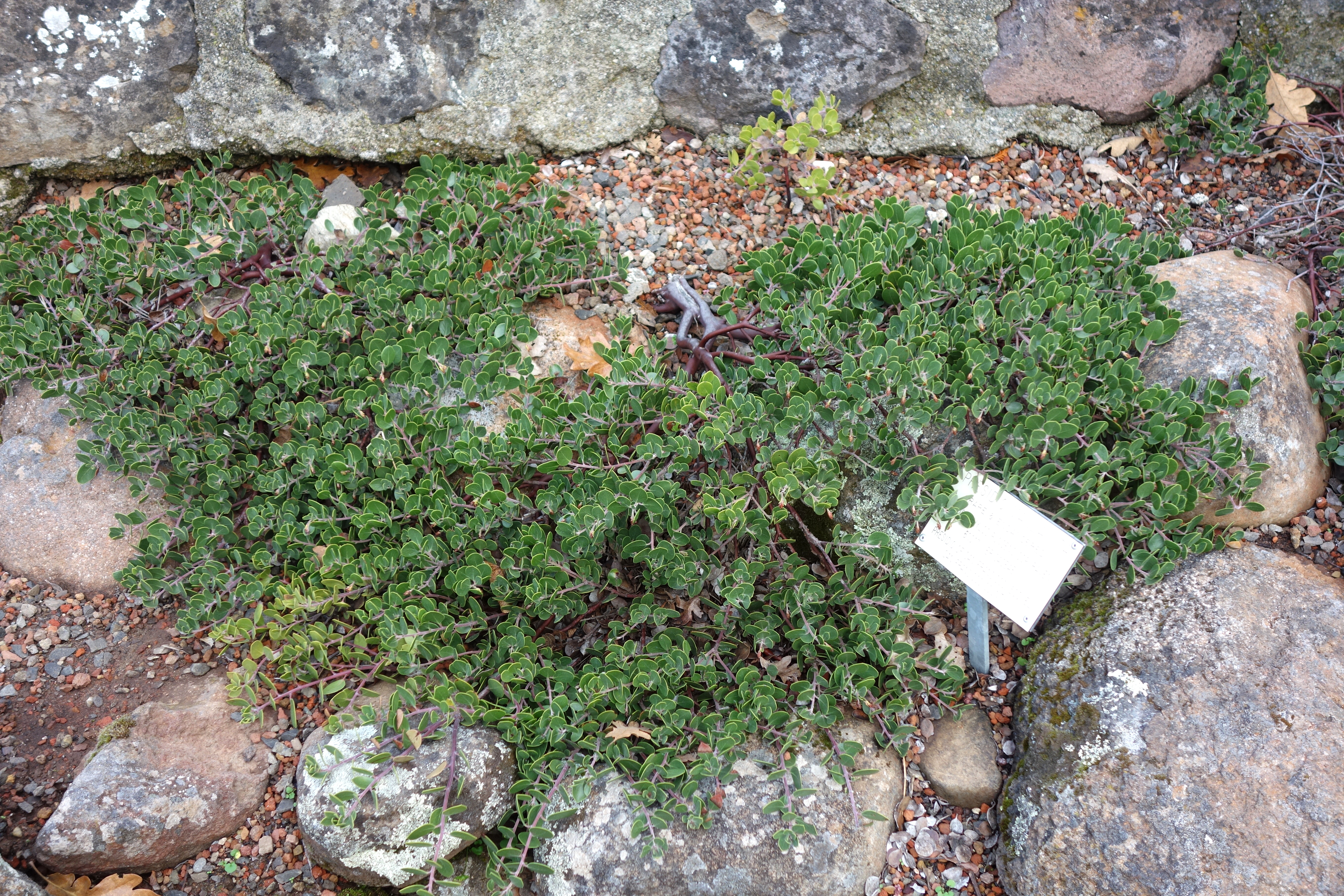 Botanical specimen in the Regional Parks Botanic Garden, Berkeley, California, USA.